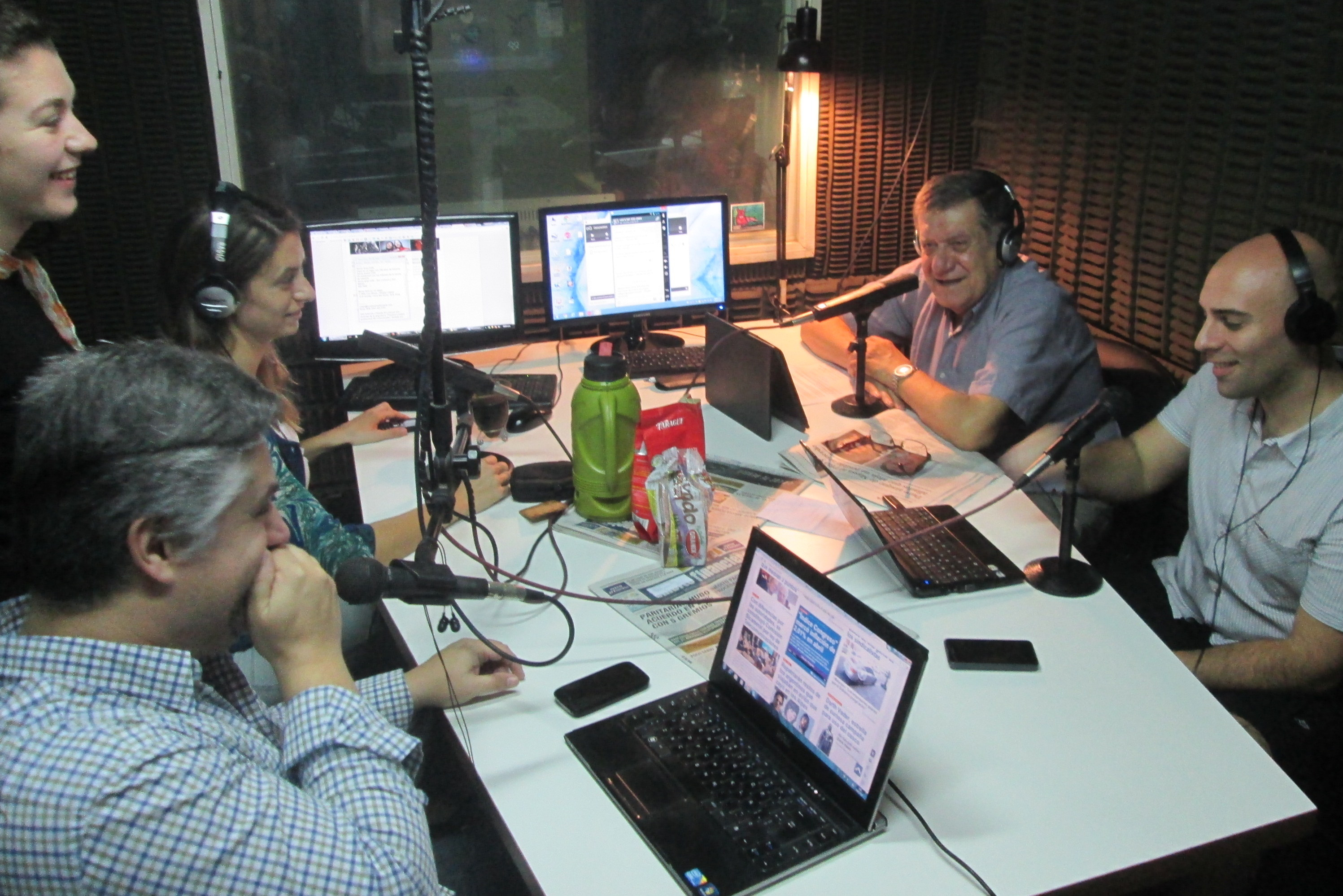 Argentine journalist Coco López (1942-) on his radio show Rompiendo los cocos (‘breaking coconuts’), in Rosario, Argentina.